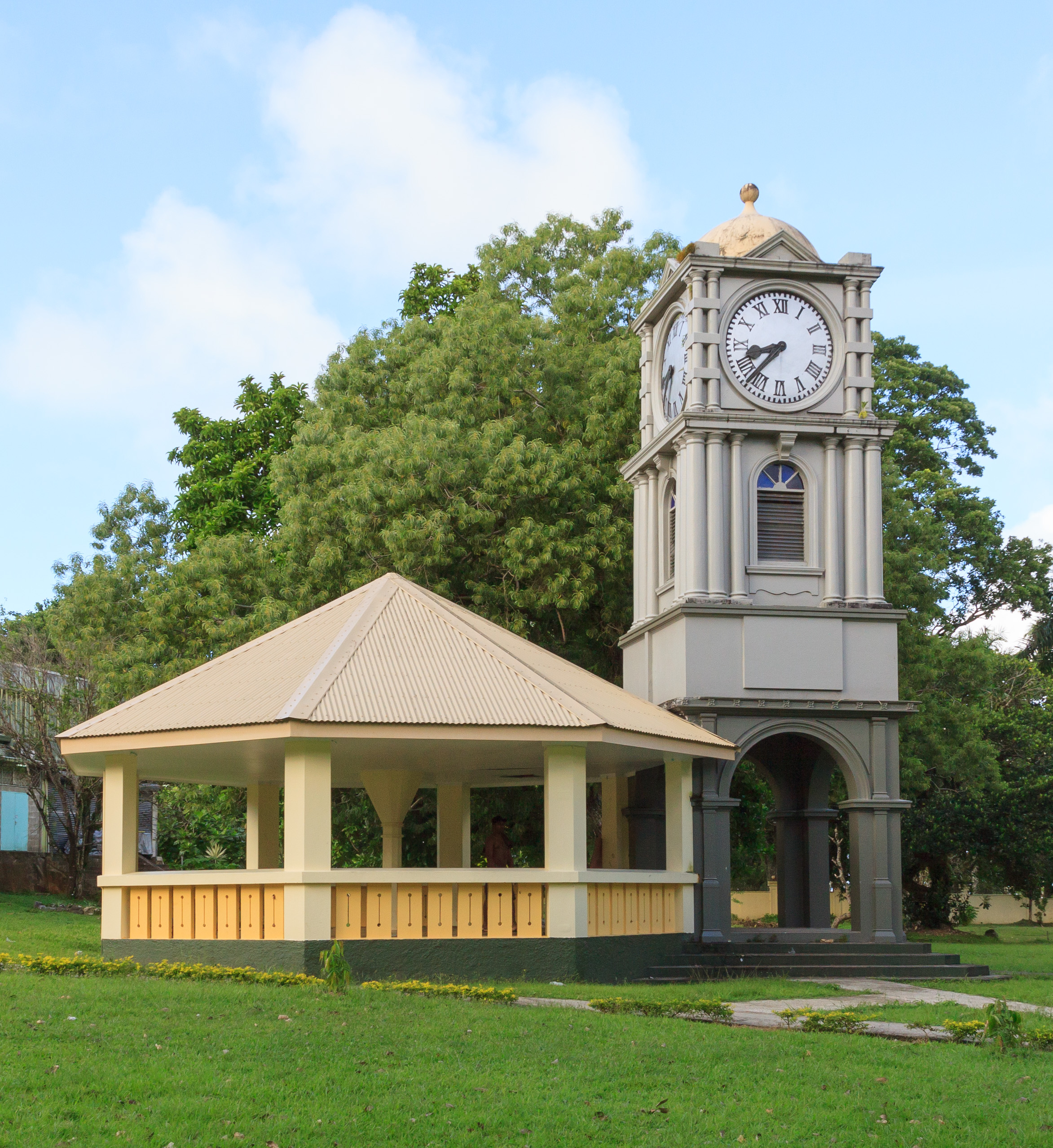 Thurston Gardens (Suva) Clock Tower